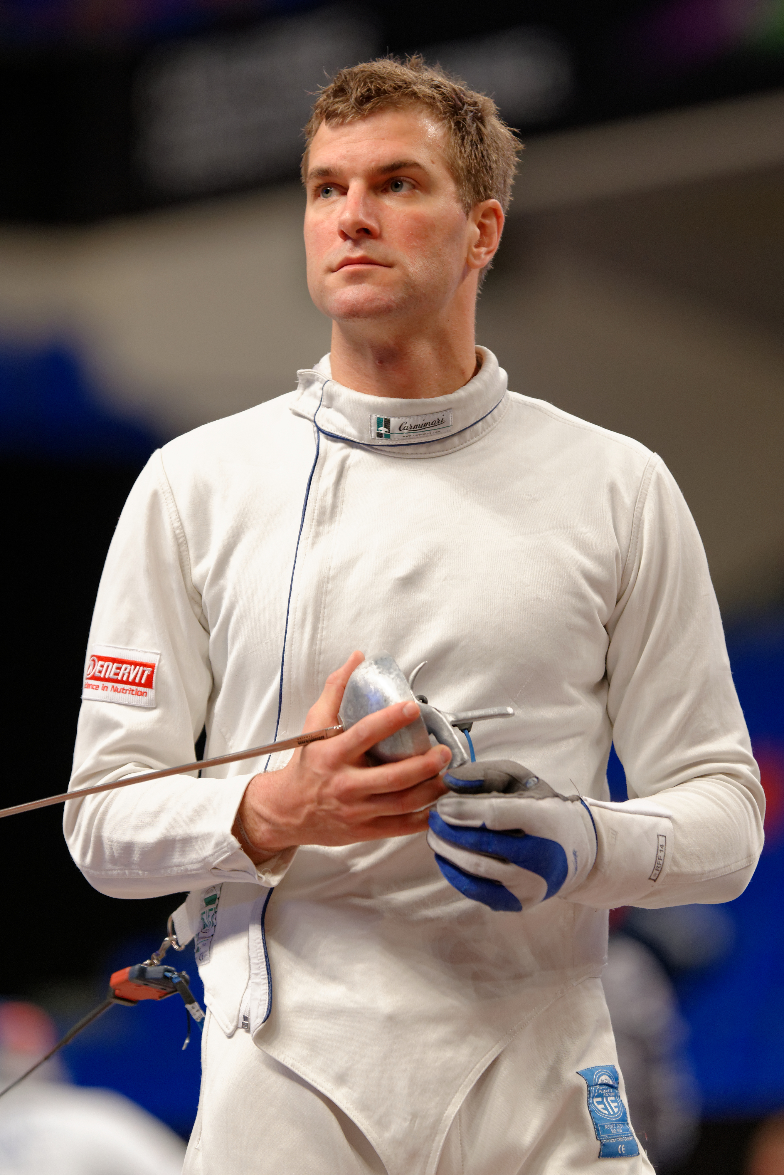 Switzerland's Benjamin Steffen in the pools stage at the 2014 Challenge RFF-Trophée Monal, a men's épée World Cup event, on 2 May 2014.